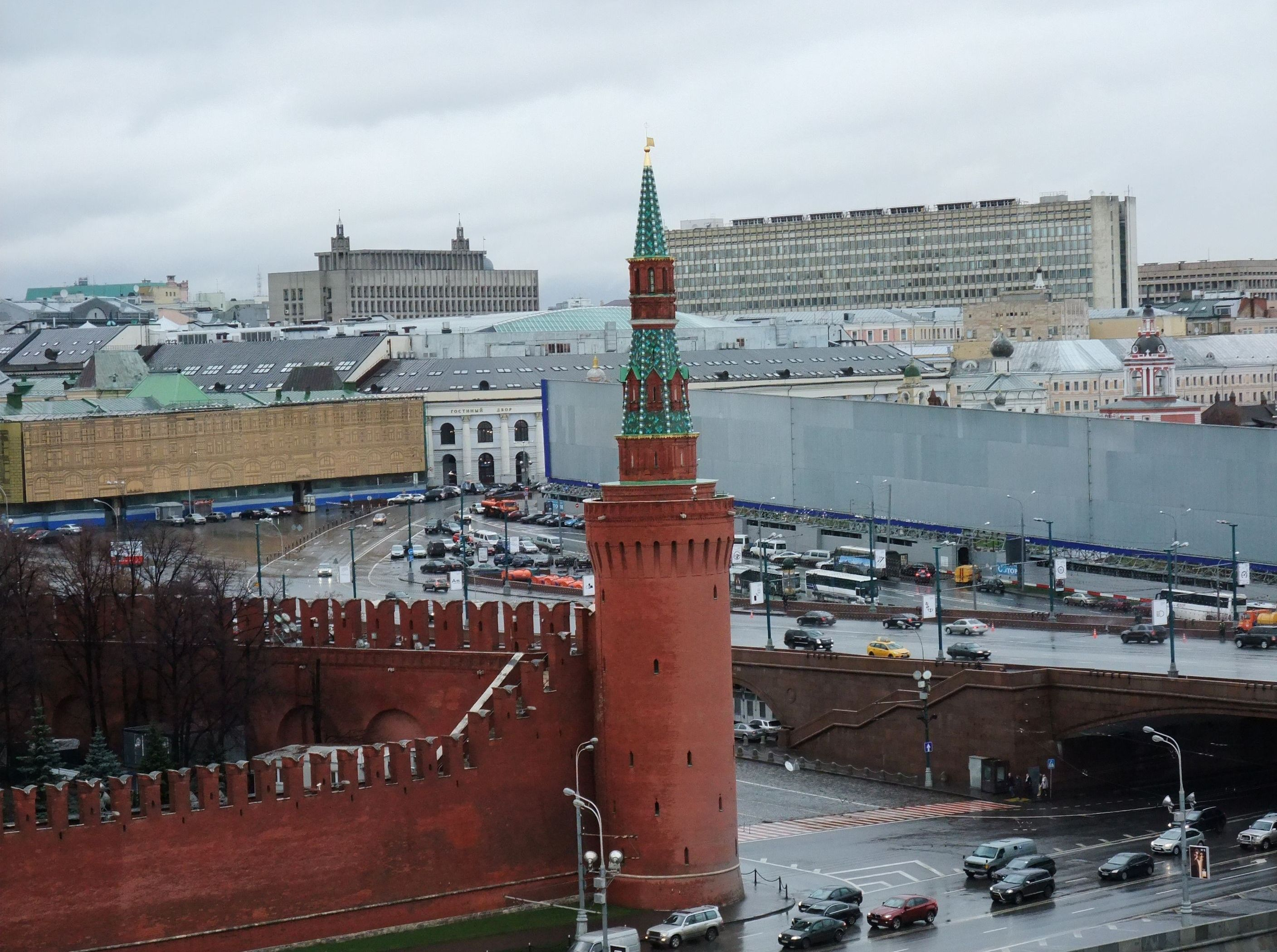 Московский Кремль